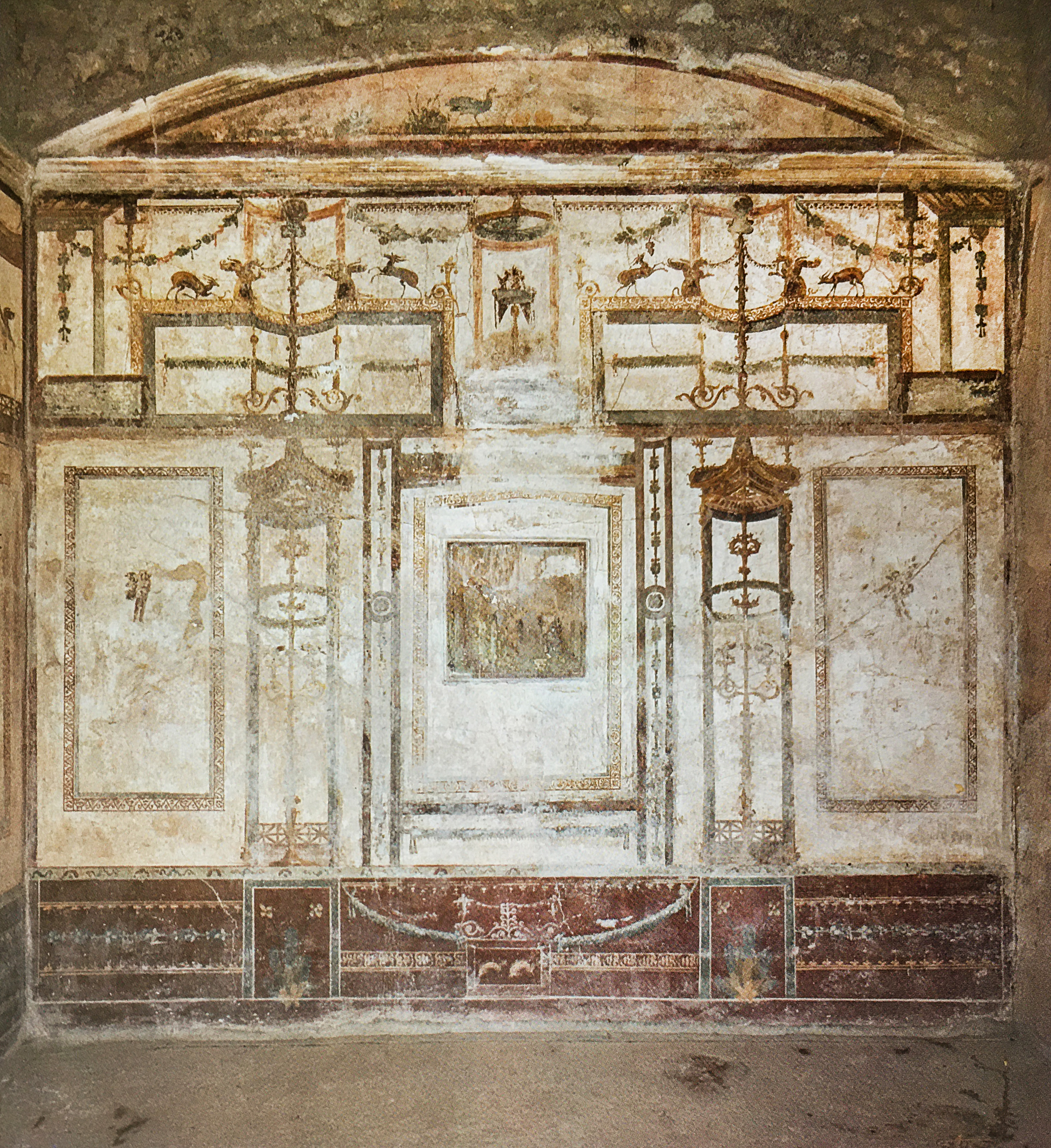 House of the Prince of Naples in Pompeii Plate 145 Triclinium East Wall